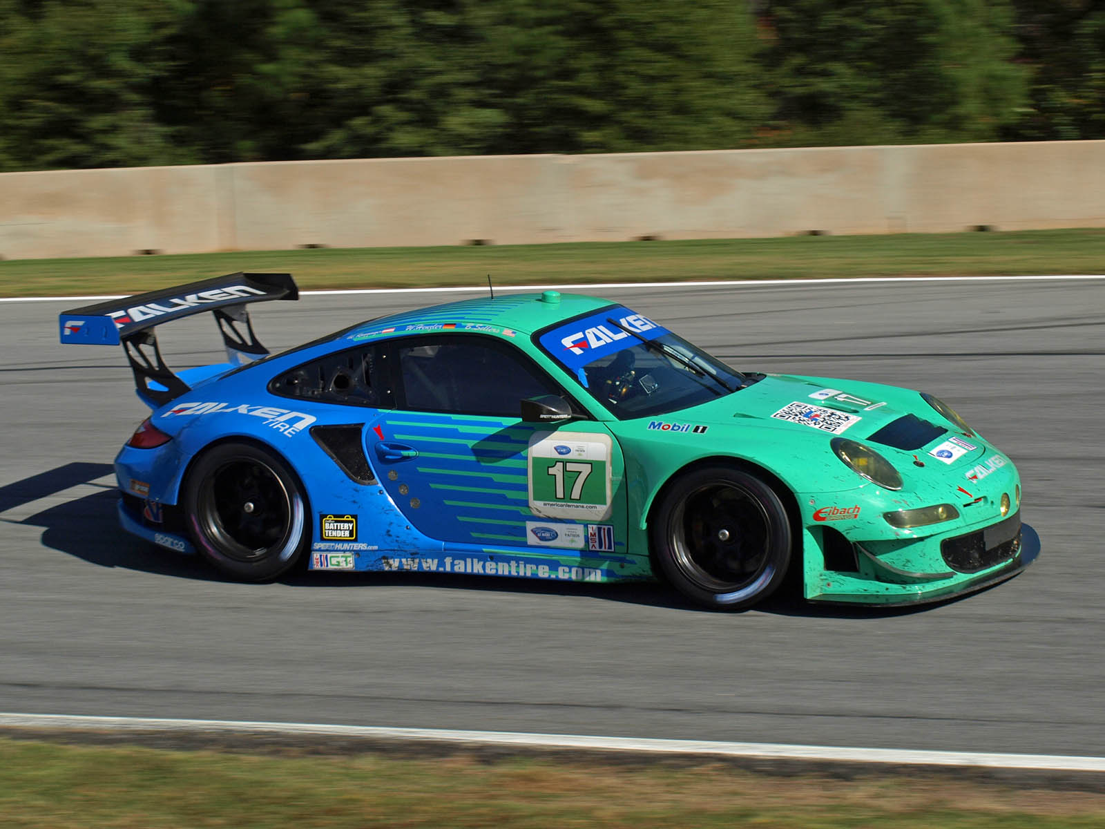 The Team Falken Tire Porsche 997 GT3-RSR at the 2012 Petit Le Mans